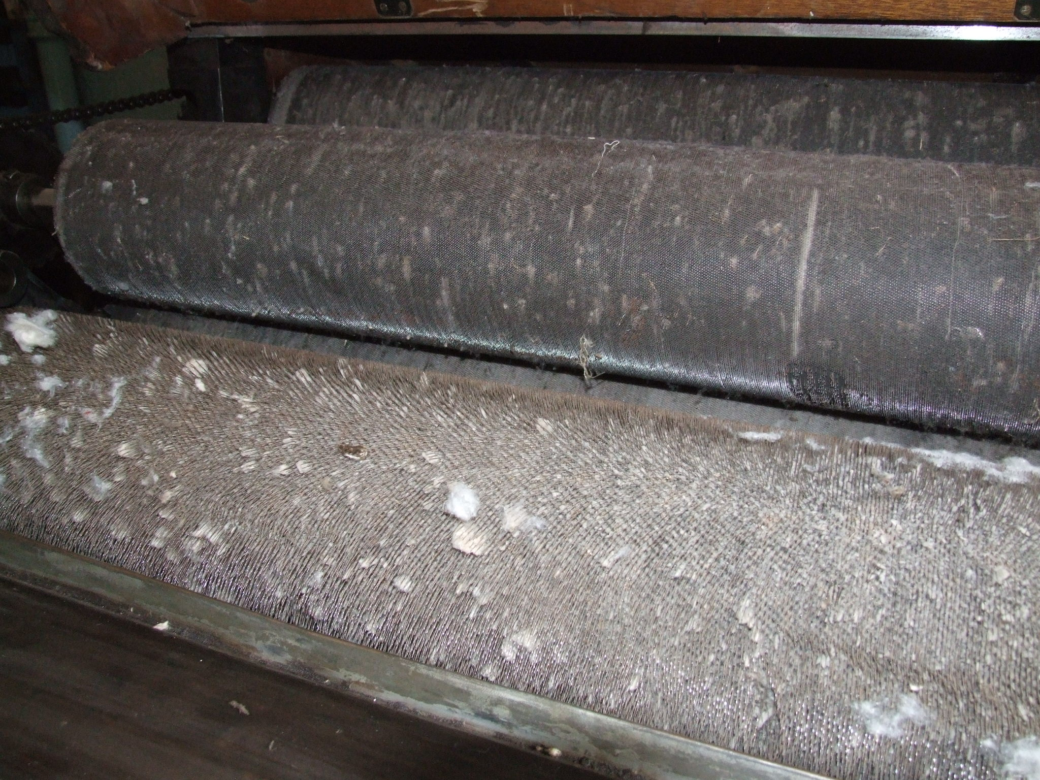 Masson Mills built in 1783 is home to a working textile mills. Breaker card showing the doffing cylinder with its longer fancy card and the doffing knife below.